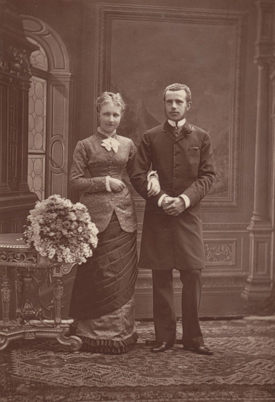 Crown Price Rudolf of Habsburg and his wife Princess Stephanie of Belgium.